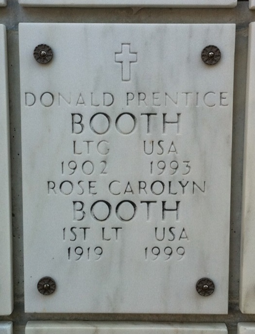 Grave of Donald Prentice Booth at Arlington National Cemetery